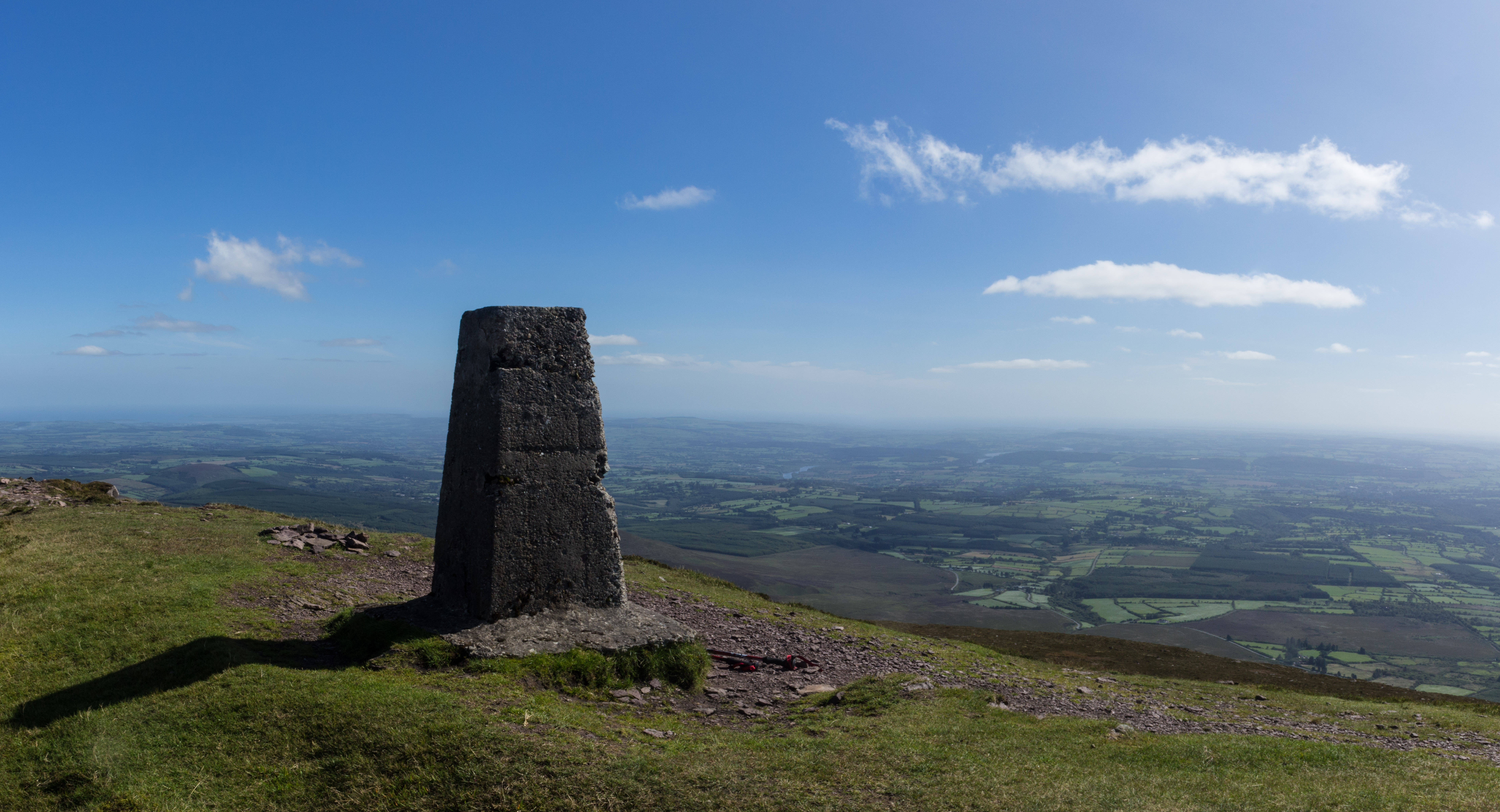 Looking south from the summit of Knockmealdown mountain in County Waterford. This is the highest point in Waterford. In the background the river Blackwater can be viewed snaking its way down to the sea at the town of Youghal.